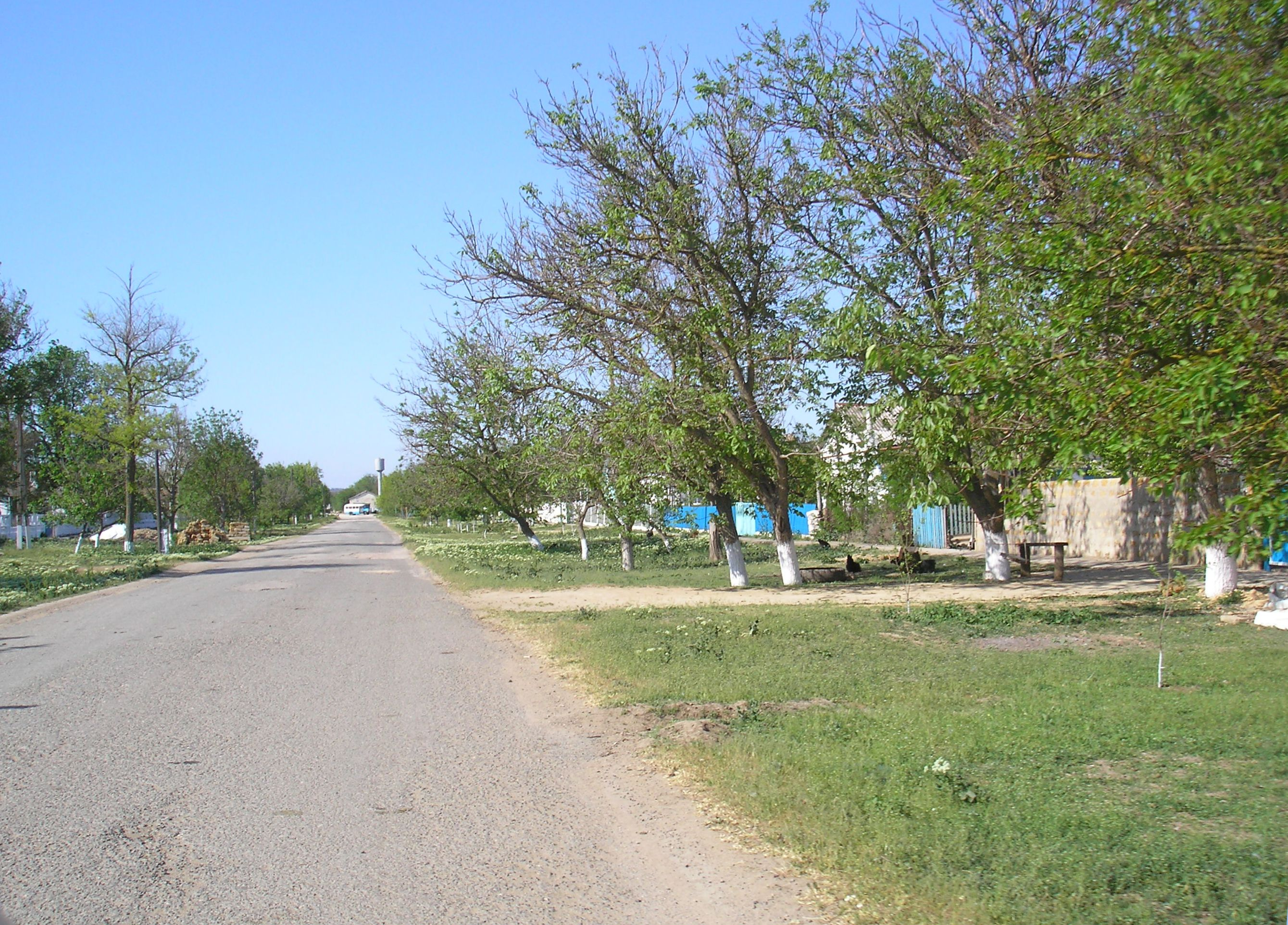 Village Izvestkovoe, Krasnogvardeysky region, Crimea.